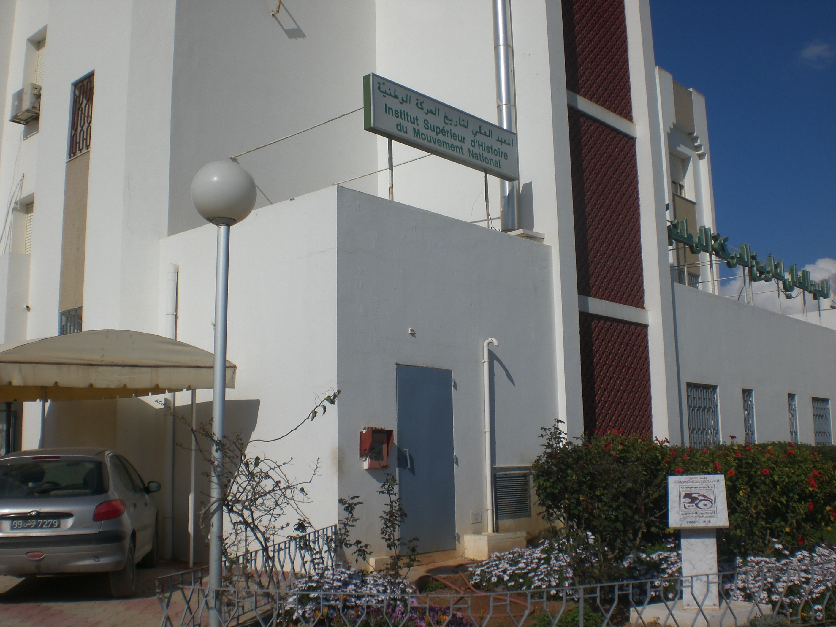 The High Institute of National History at Tunis